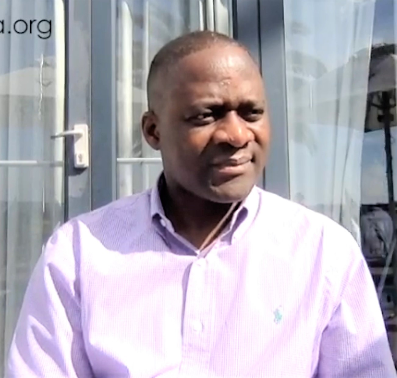 Henry Mwandumba from Malawi-Liverpool-Wellcome Trust Research Groups, highlights his research interests and the complex nature of M.tb infection and TB diseases in the lung.